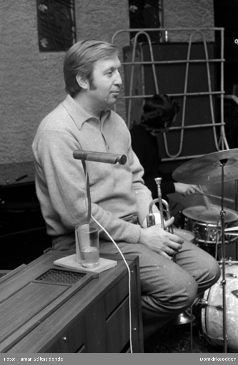 Norwegian jazz musician Eivind Solberg